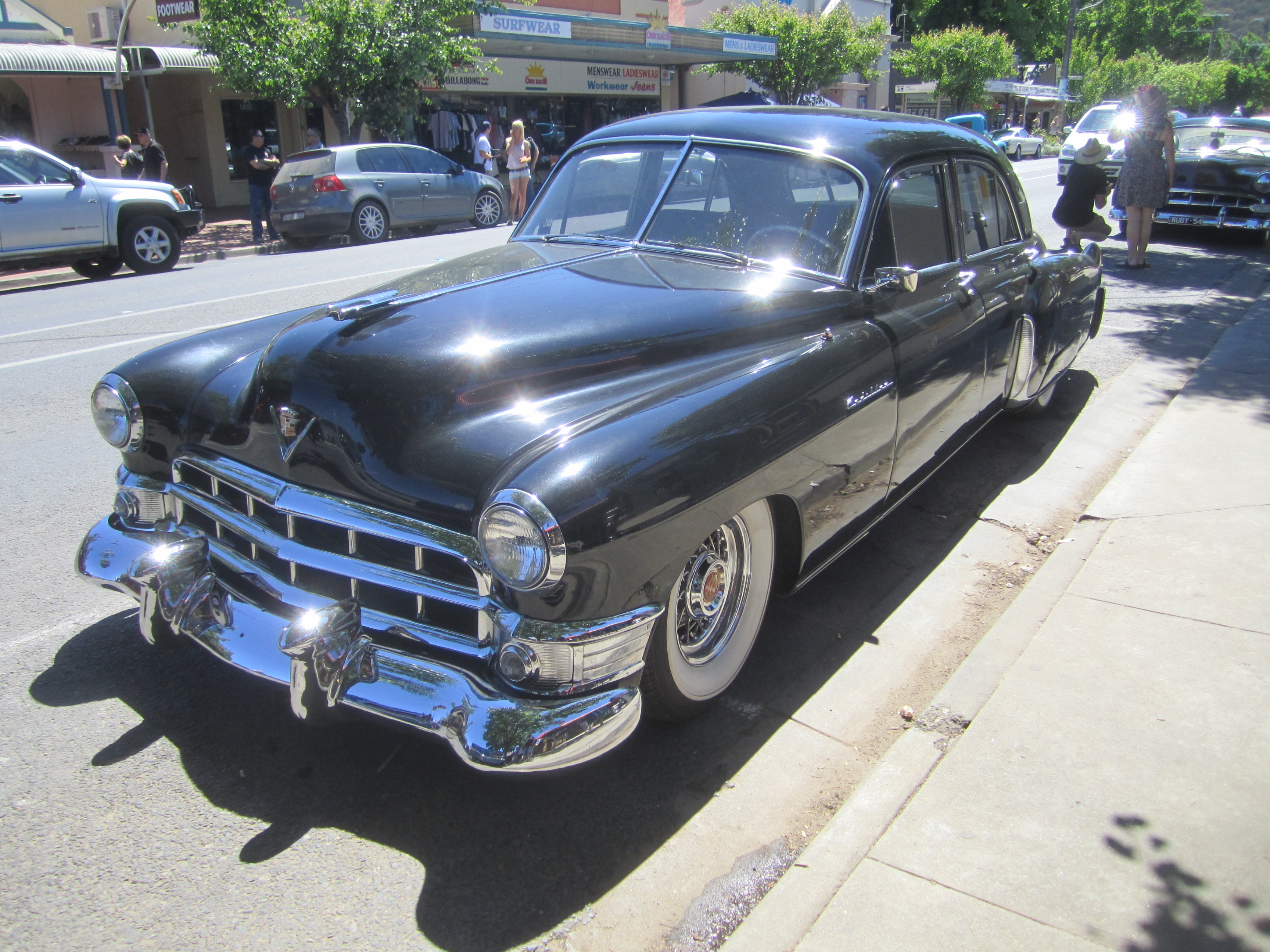 Available in Sedan, Coupe or Convertible. Engine; 331 cu in V8